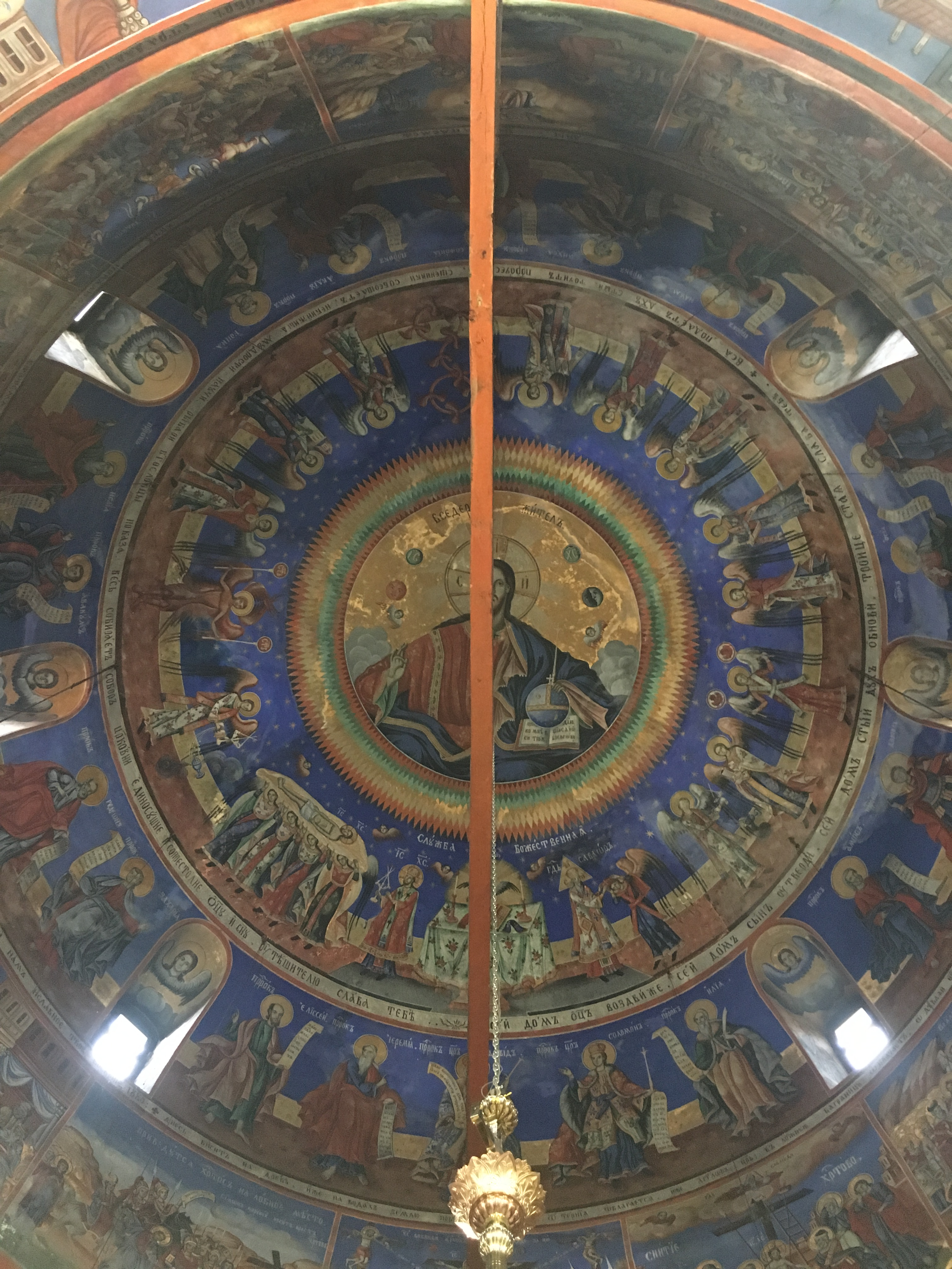 Wikiexpedition to Kopačka